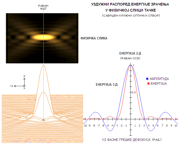 3-Д ФИЗИЧКA СЛИКA ТАЧКЕ ЗA САВРШЕН КРУЖНИ ОПТИЧКИ ОТВОР